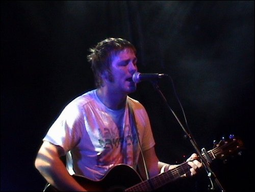 Rob Smith performing live at the Olympia Theatre, Dublin.